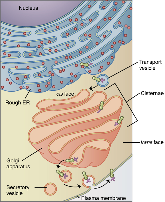 Caption:(a) The Golgi apparatus manipulates products from the rough ER, and also produces new organelles called lysosomes. Proteins and other products of the ER are sent to the Golgi apparatus, which organizes, modifies, packages, and tags them. Some of these products are transported to other areas of the cell and some are exported from the cell through exocytosis. Enzymatic proteins are packaged as new lysosomes (or packaged and sent for fusion with existing lysosomes). (b) An electron micrograph of the Golgi apparatus. URL: Version 8.25 from the Textbook OpenStax Anatomy and Physiology Published May 18, 2016 Other versions